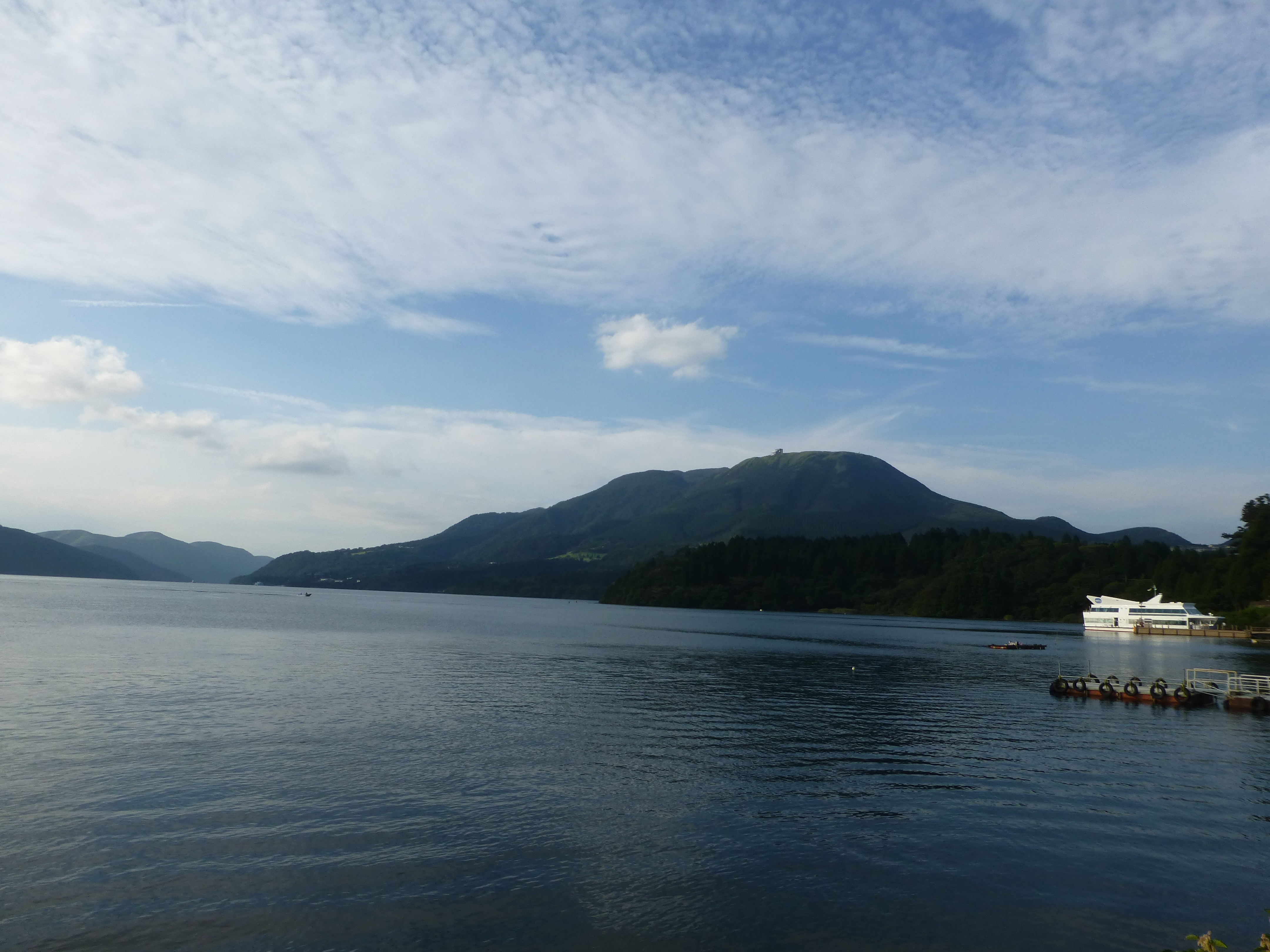 Lake Ashi, Hakone, Kanagawa Prefecture, Japan. South shore looking north.